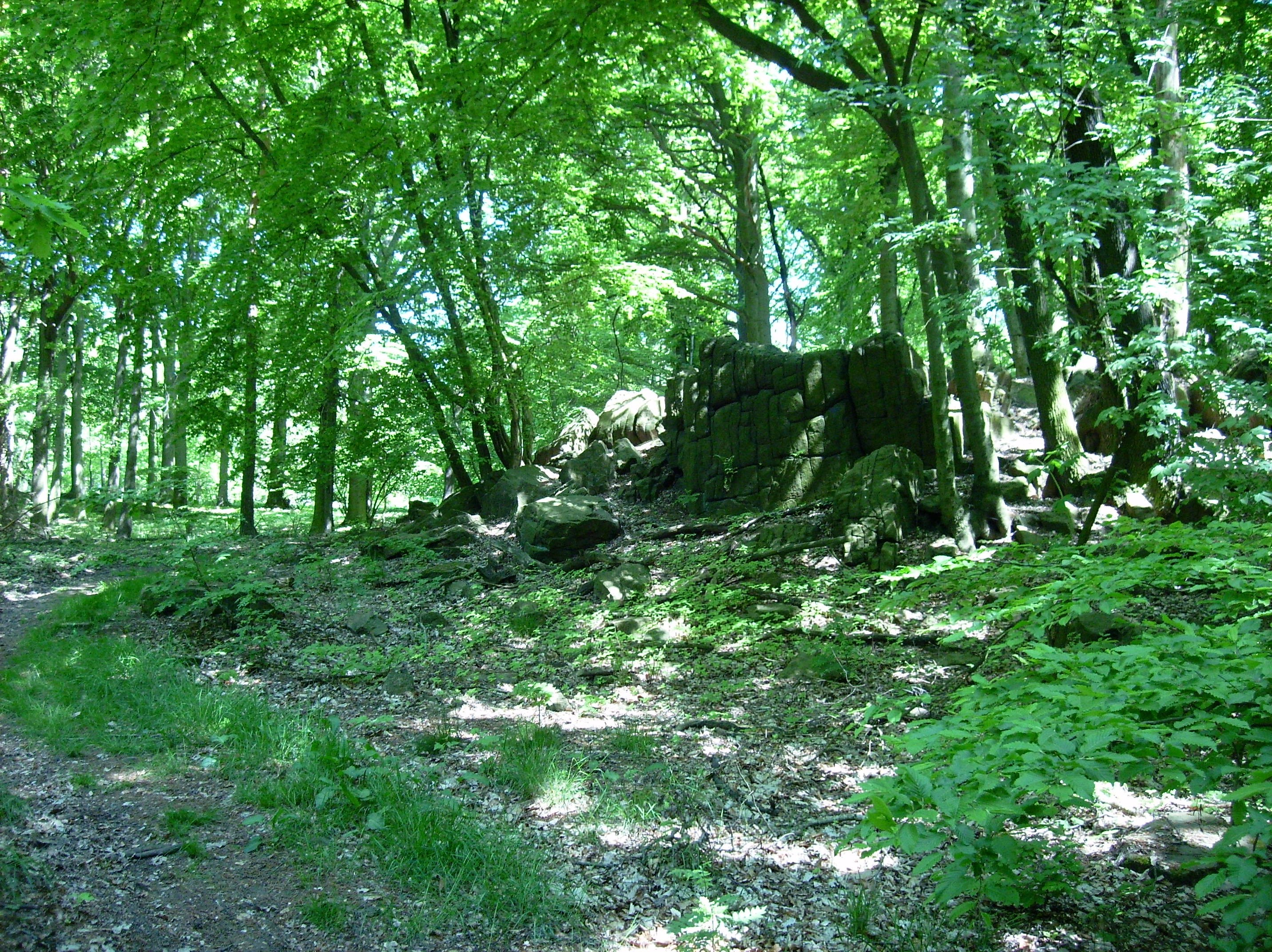 Rocks at the Löbenberg near Hohburg (Leipzig district, Saxony)